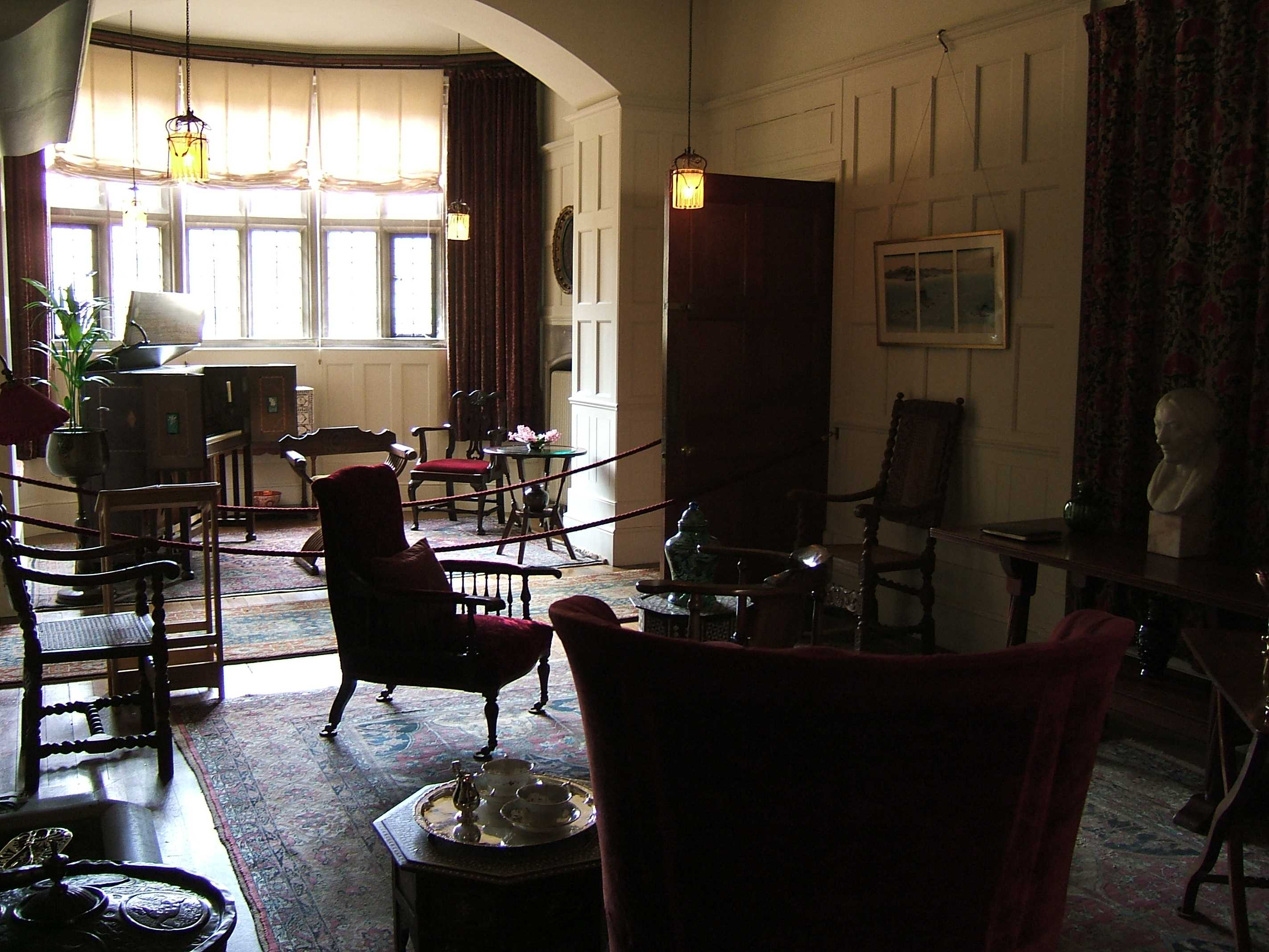 Interior of Standen, an arts and crafts family home designed by Philip Webb with interiors by William Morris.